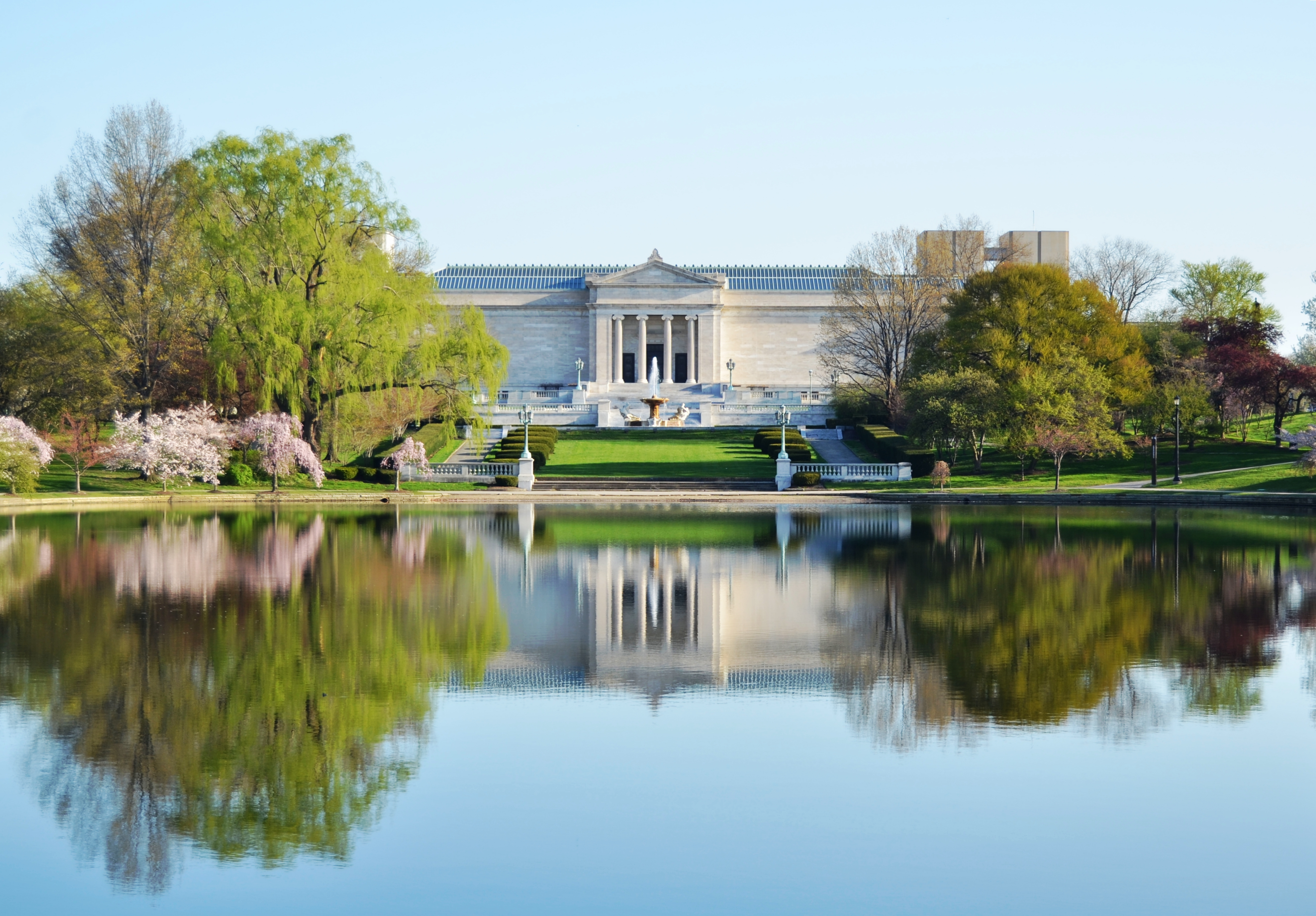 Cleveland Museum of Art